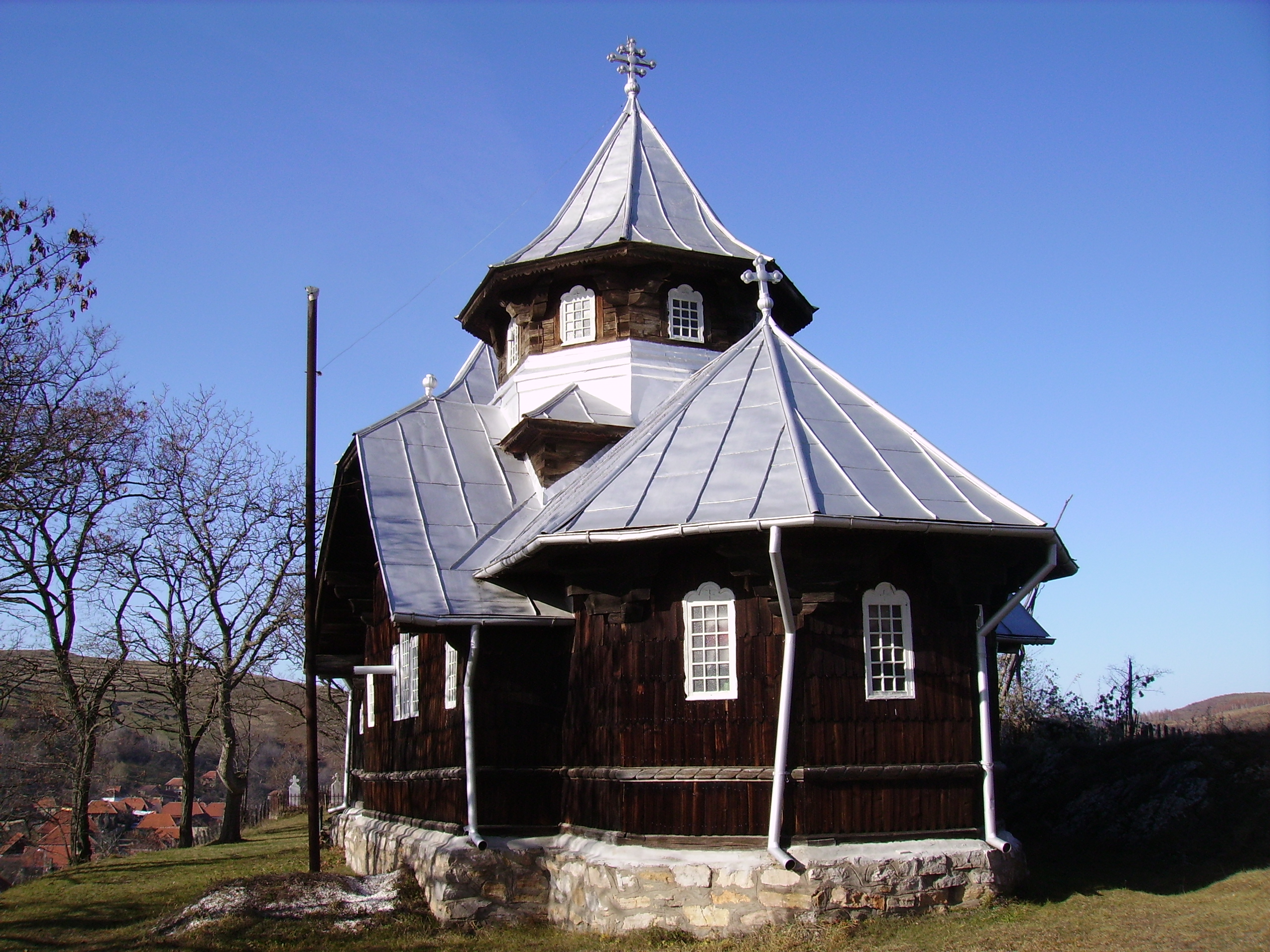 The wooden church in Poienița Voinii, Hunedoara county, Romania